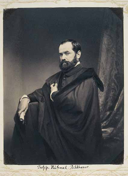 The german sculpteur Ernst Julius Hähnel (1811-1891)